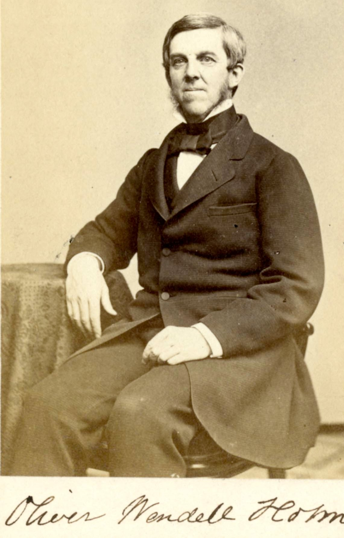 A photograph of Oliver Wendell Holmes, Sr. from the collection of the Boston Society for Medical Improvement.